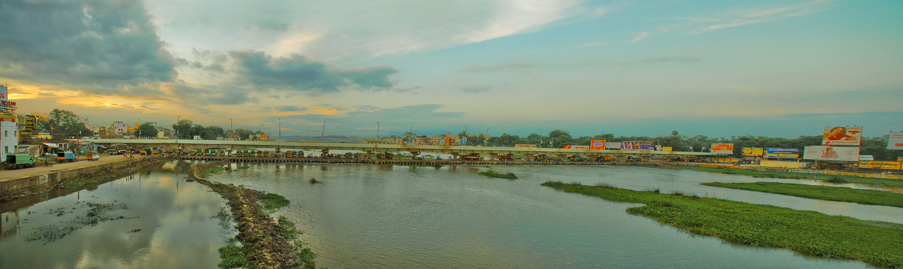 Bridge across Vaigai River